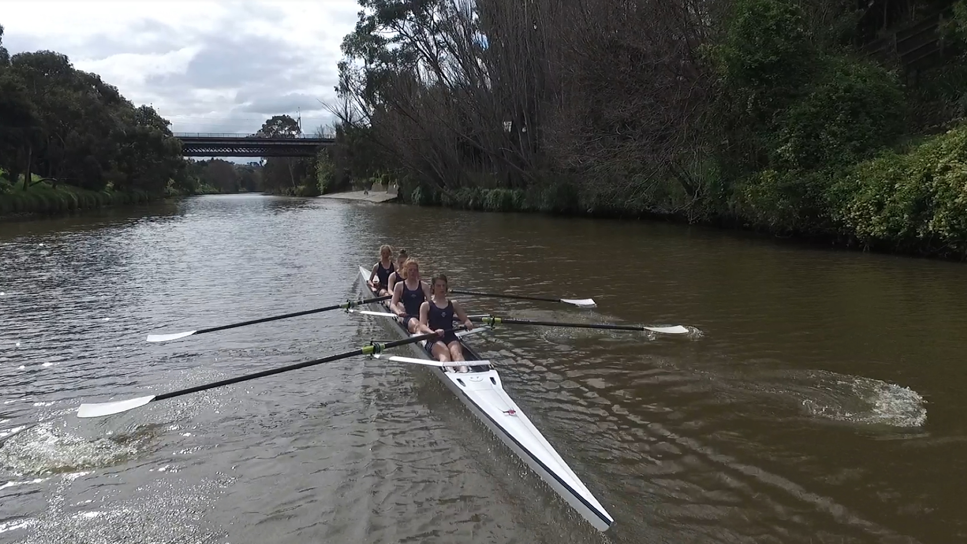 Melbourne Girls College operating a rowing program on the Yarra River